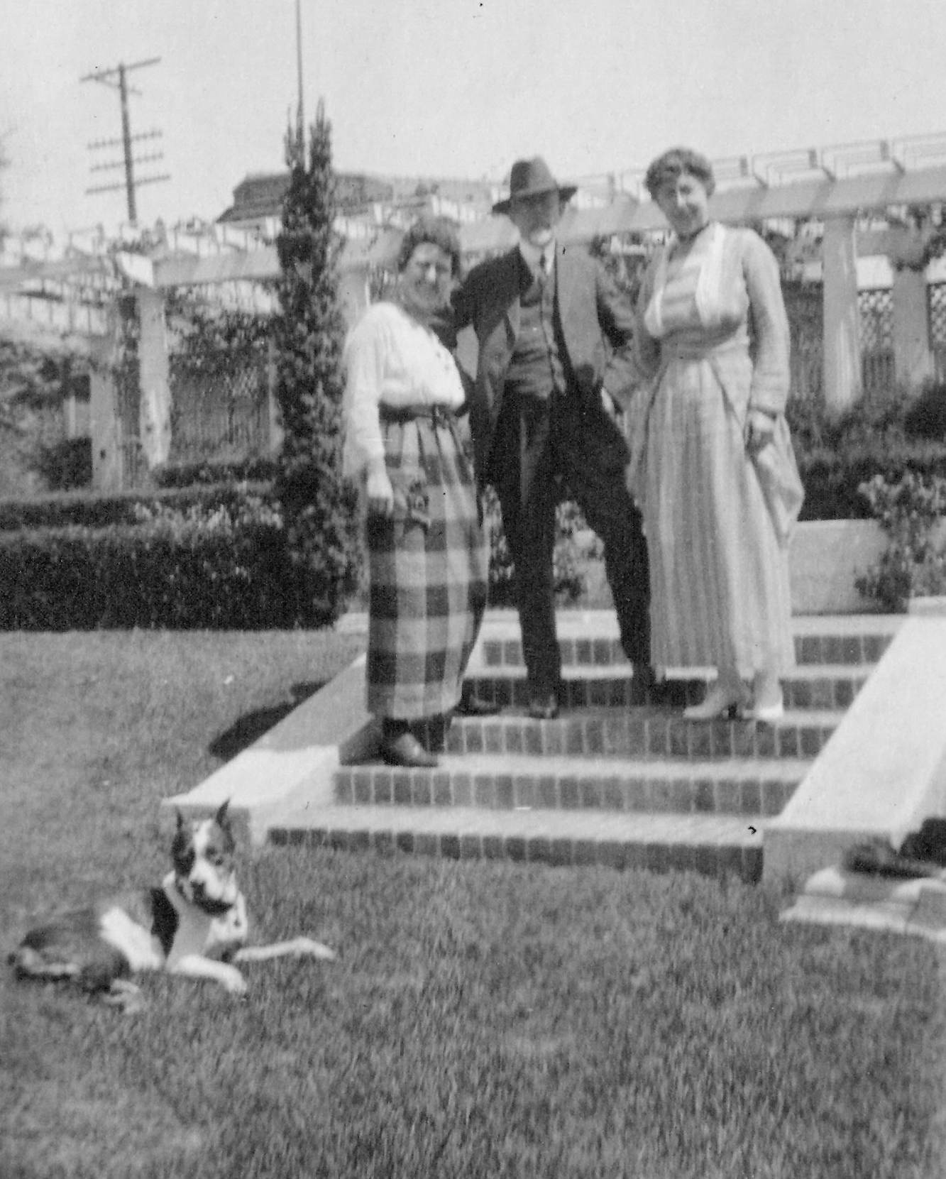 In 1919, William Andrew Clark's bibliographer Robert E. Cowan, Cowan’s wife Marie, and Caroline Estes-Smith, manager of the LA Philharmonic posed for the picture in the William Andrew Clark Memorial Library’s sunken garden, along with the Clark family’s dog, Snooks.